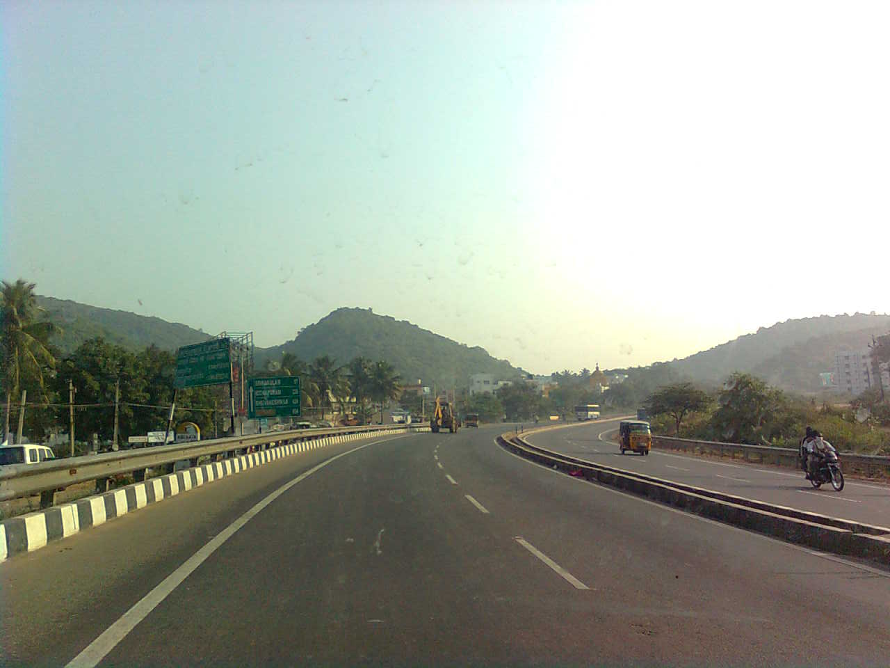 National Highway 5 (NH5 - new NH16) at Hanumanthawaka,Visakhapatnam